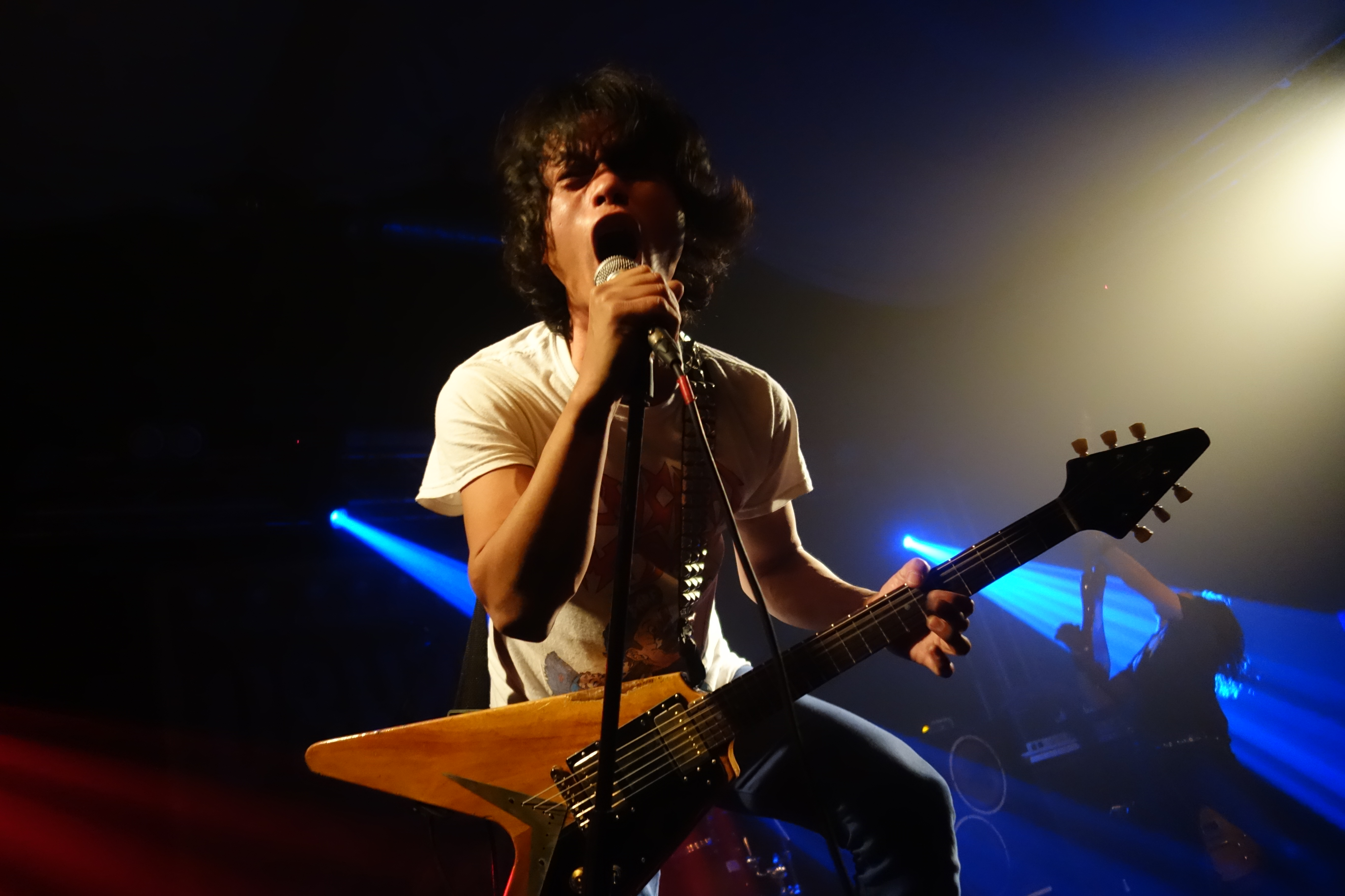 Electric Eel Shock at Das Bett in Frankfurt am Main Akihito Morimoto